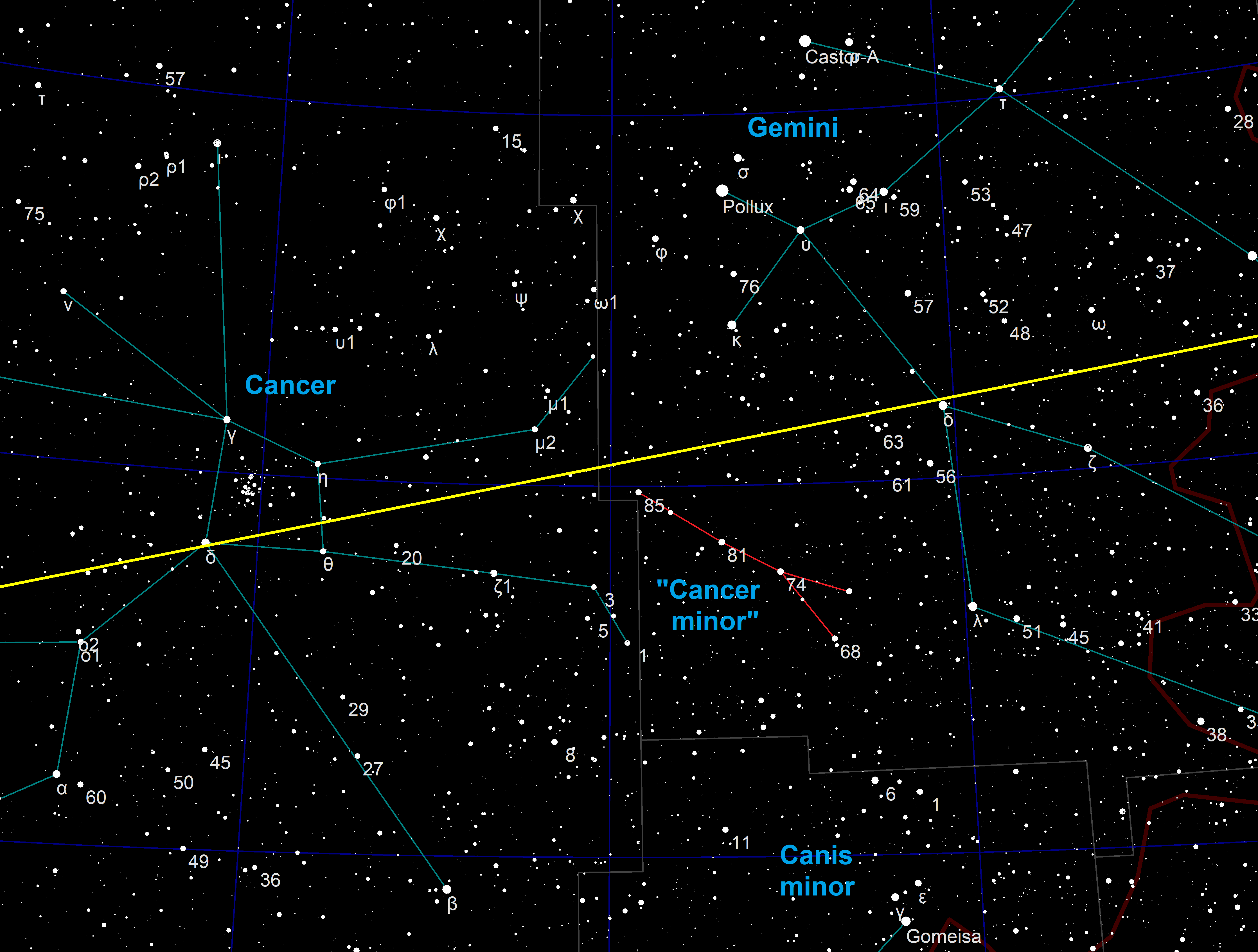 Cancer minor (constellation) starmap, showing 4 stars in Modern Gemini representing the former constellation